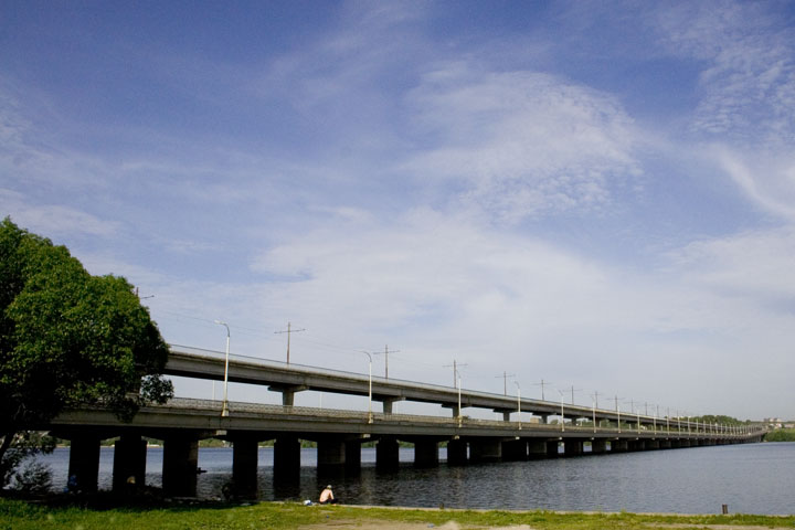 Severny (North) bridge in Voronezh